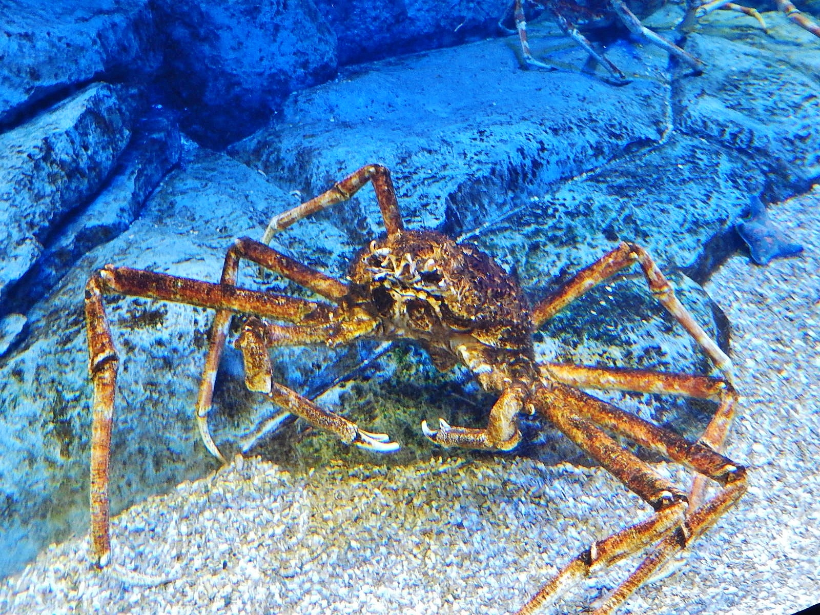 Giant Spider Crab